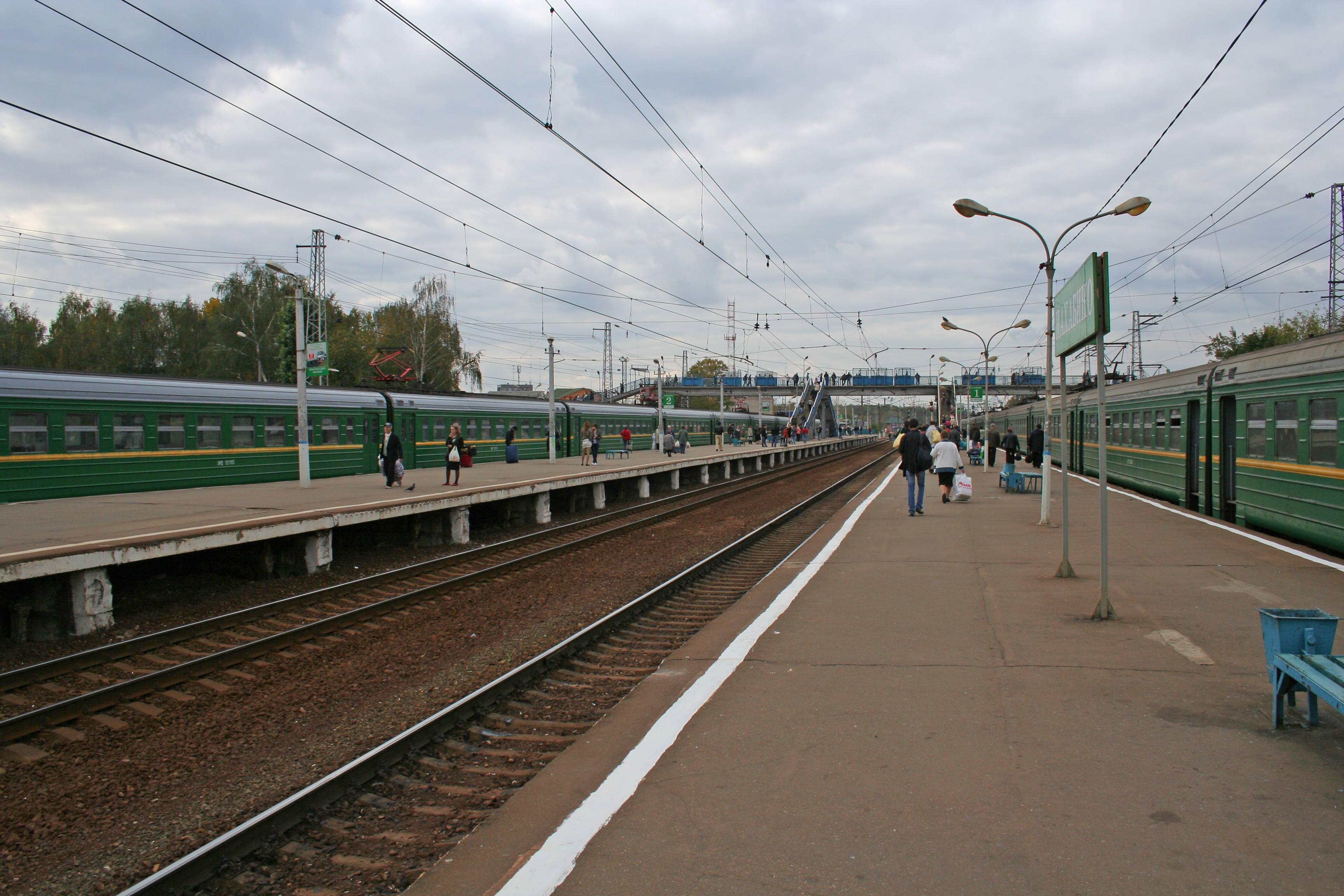 Train station Nakhabino in Moscow Oblast